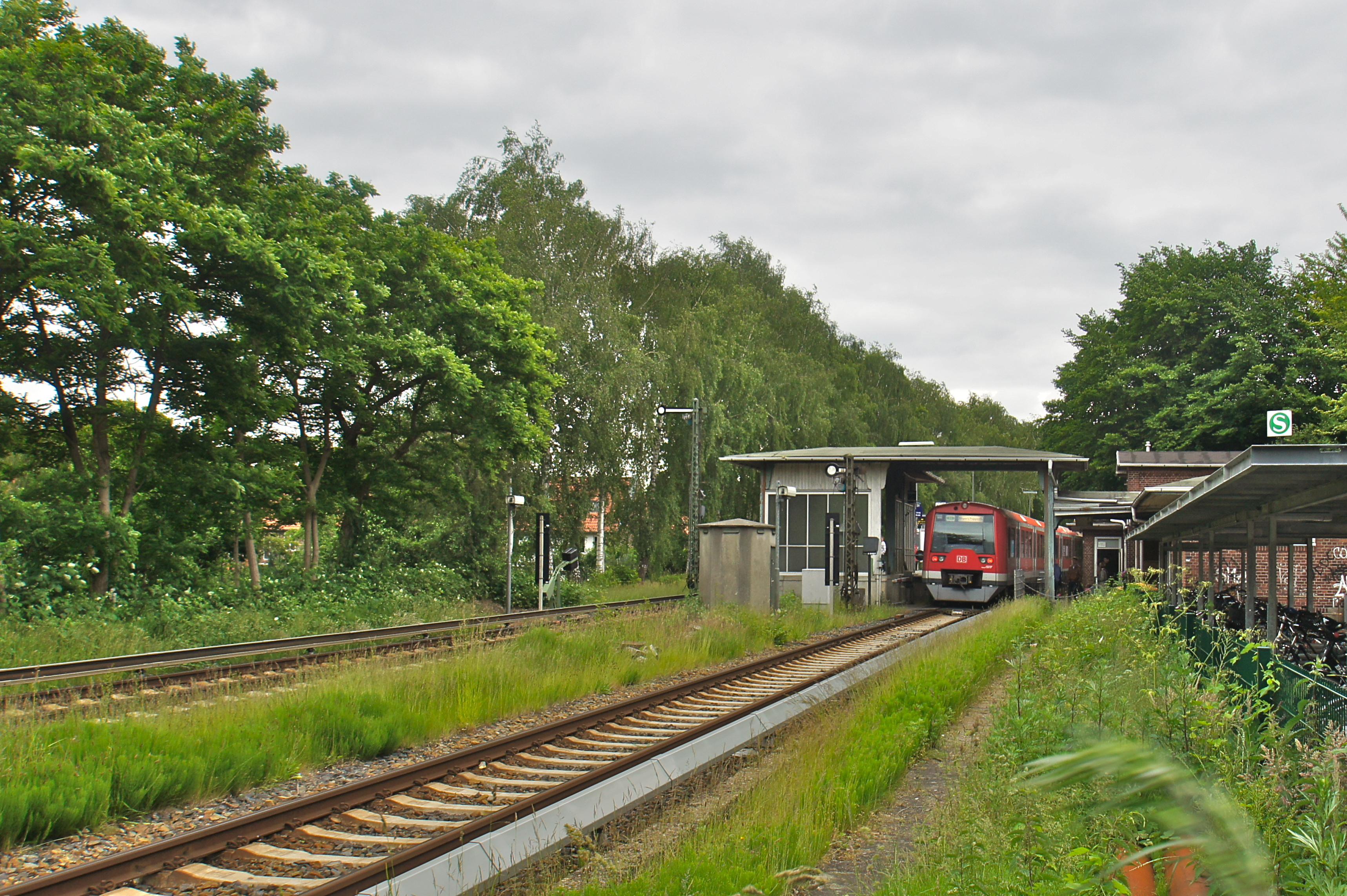 Hamburg (Sülldorf), Germany: The S-Bahn Station with contemporary waggon